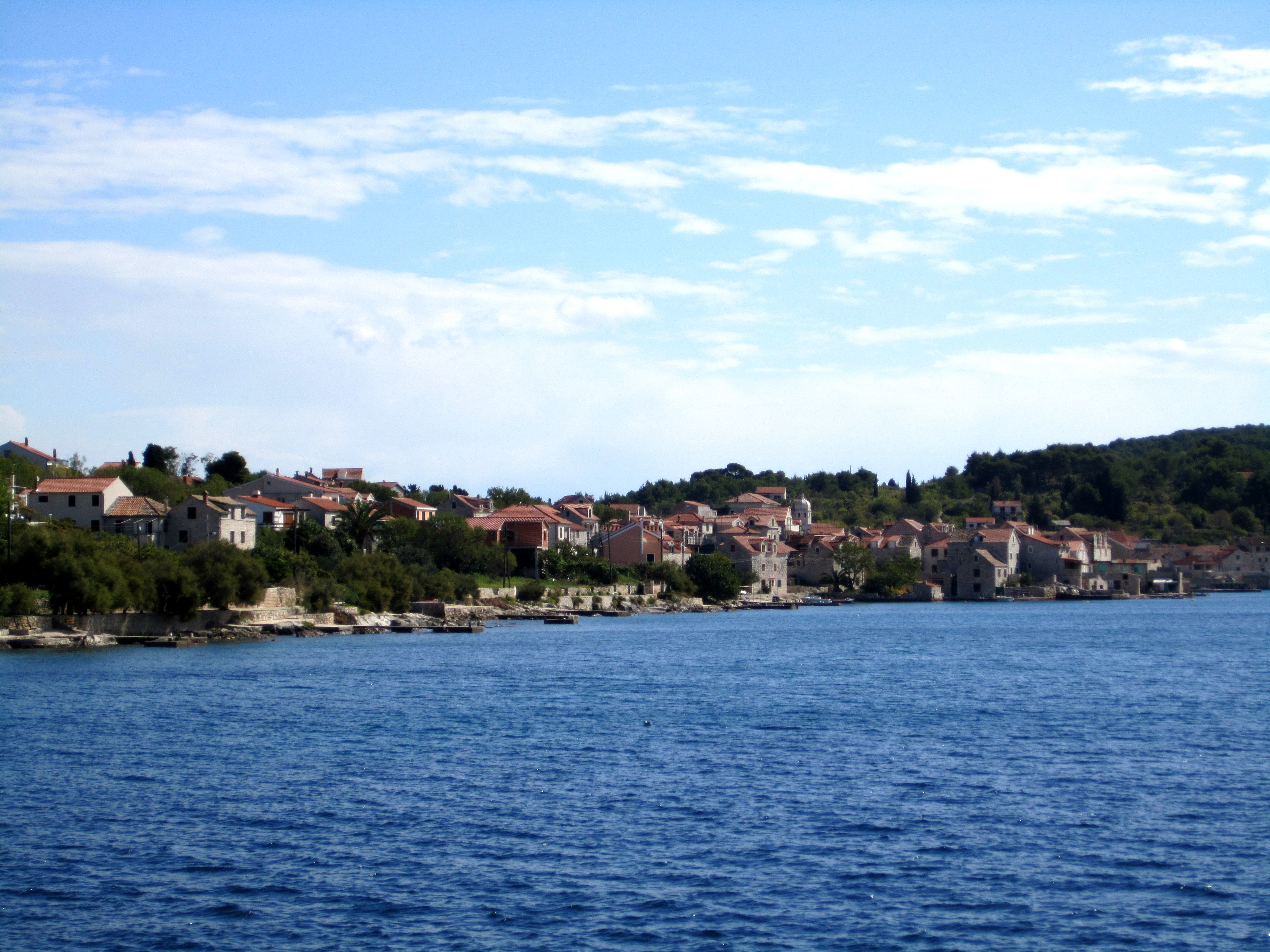 Šepurine. Island of Prvić (near Šibenik, Croatia)